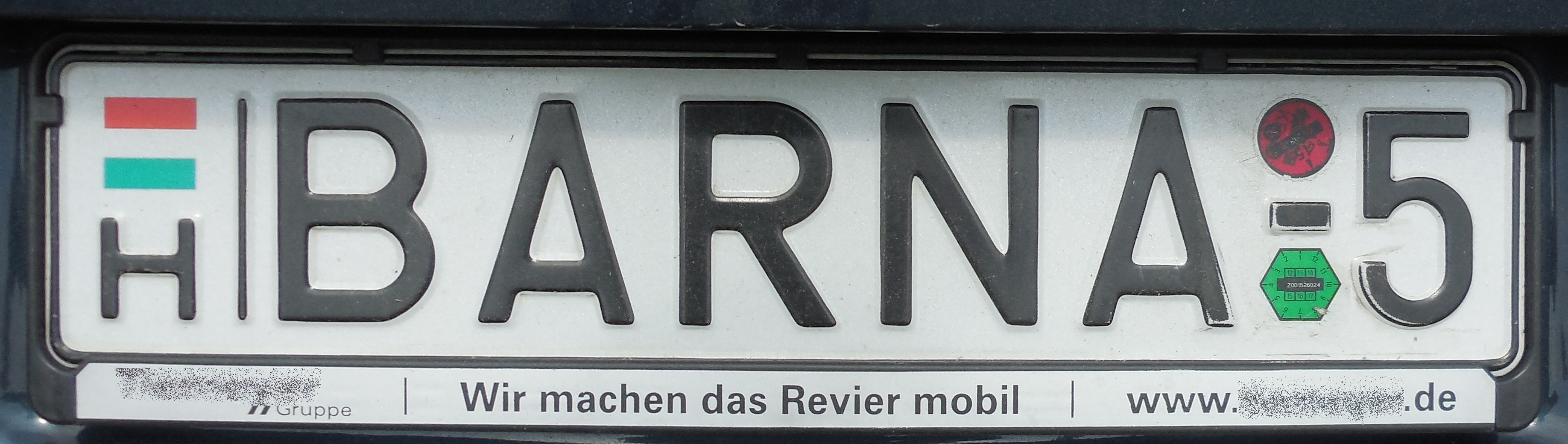 Unique hungarian license plate BARNA-5. The Unique plates may be in ABCD-12 or ABCDE-1 format.